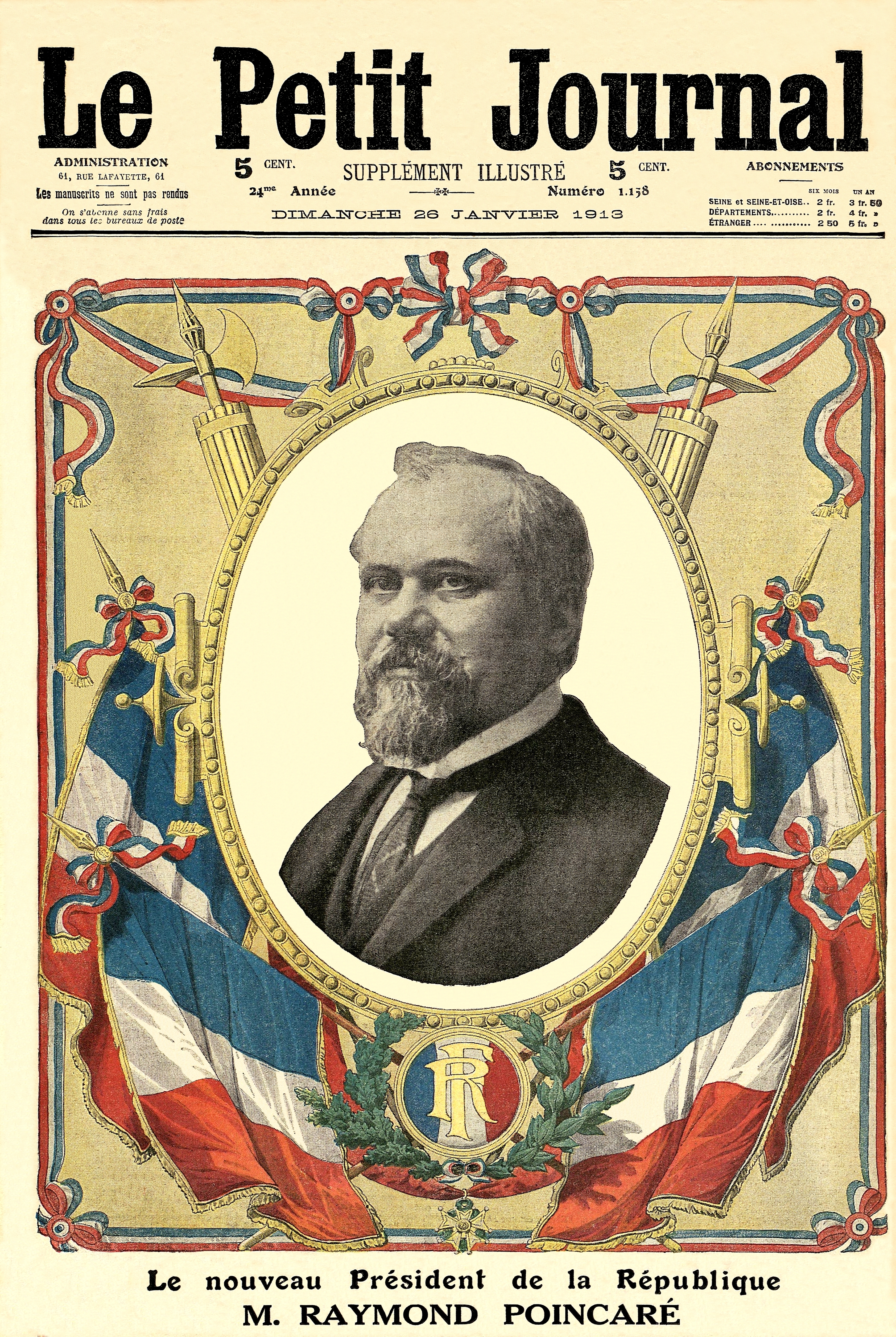 Front page of the weekly illustrated supplement of "Le Petit Journal", celebrating the election of Raymond Poincaré, as new President of the French Republic.